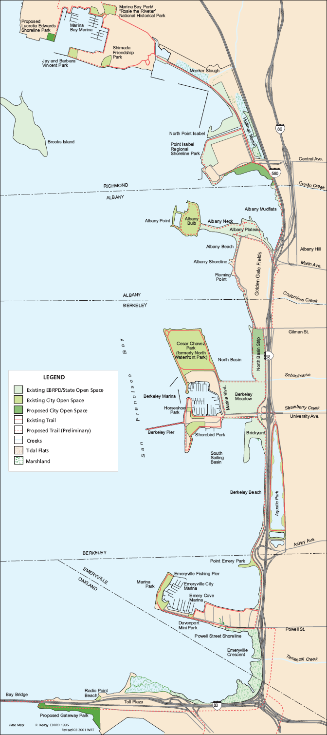 Map of Eastshore State Park, on the eastern San Francisco Bay, California